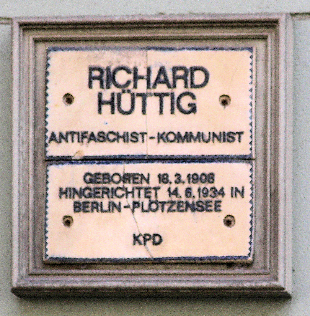 Memorial plaque, Richard Hüttig, Seelingstraße 21, Berlin-Charlottenburg, Germany Koordinate:52°30′55.6″N 13°17′35.4″E / 52.515444°N 13.293167°E